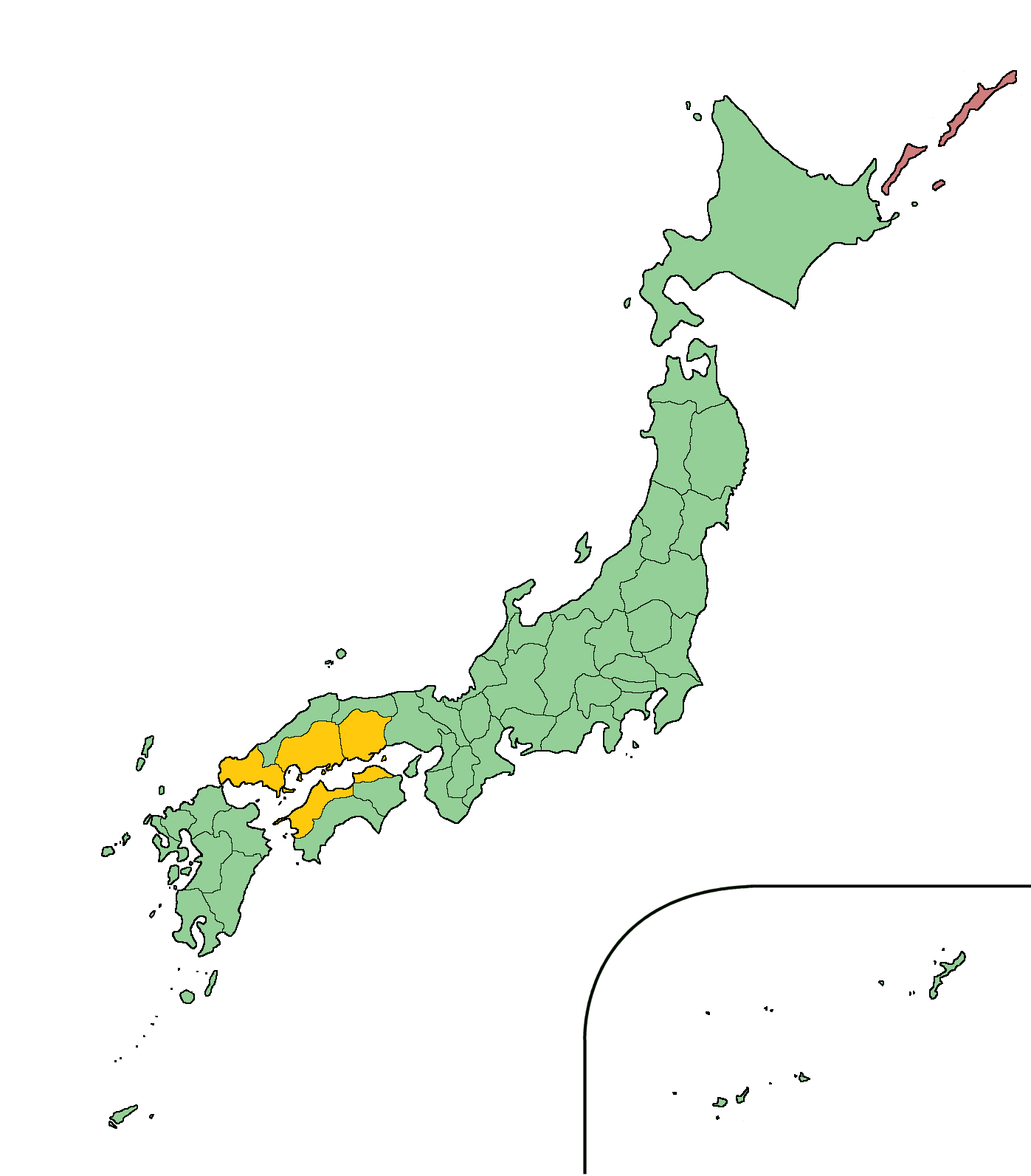 Large size map of Japan with Setouchi(Seto Inland Sea) region highlighted.